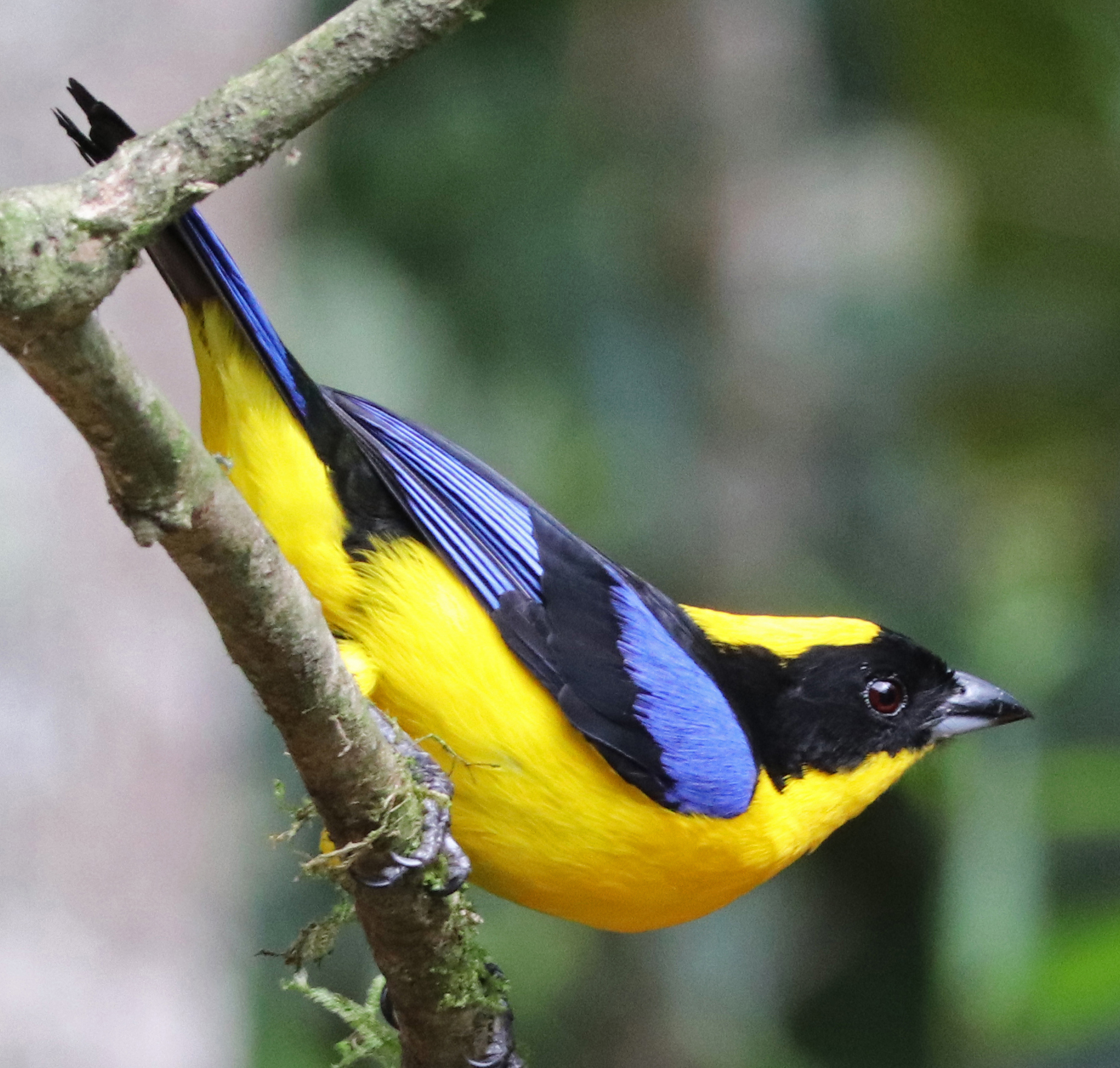 Blue-winged Mountain-Tanager resting on a branch at San Jorge Eco-lodge Tandayapa, Ecuador